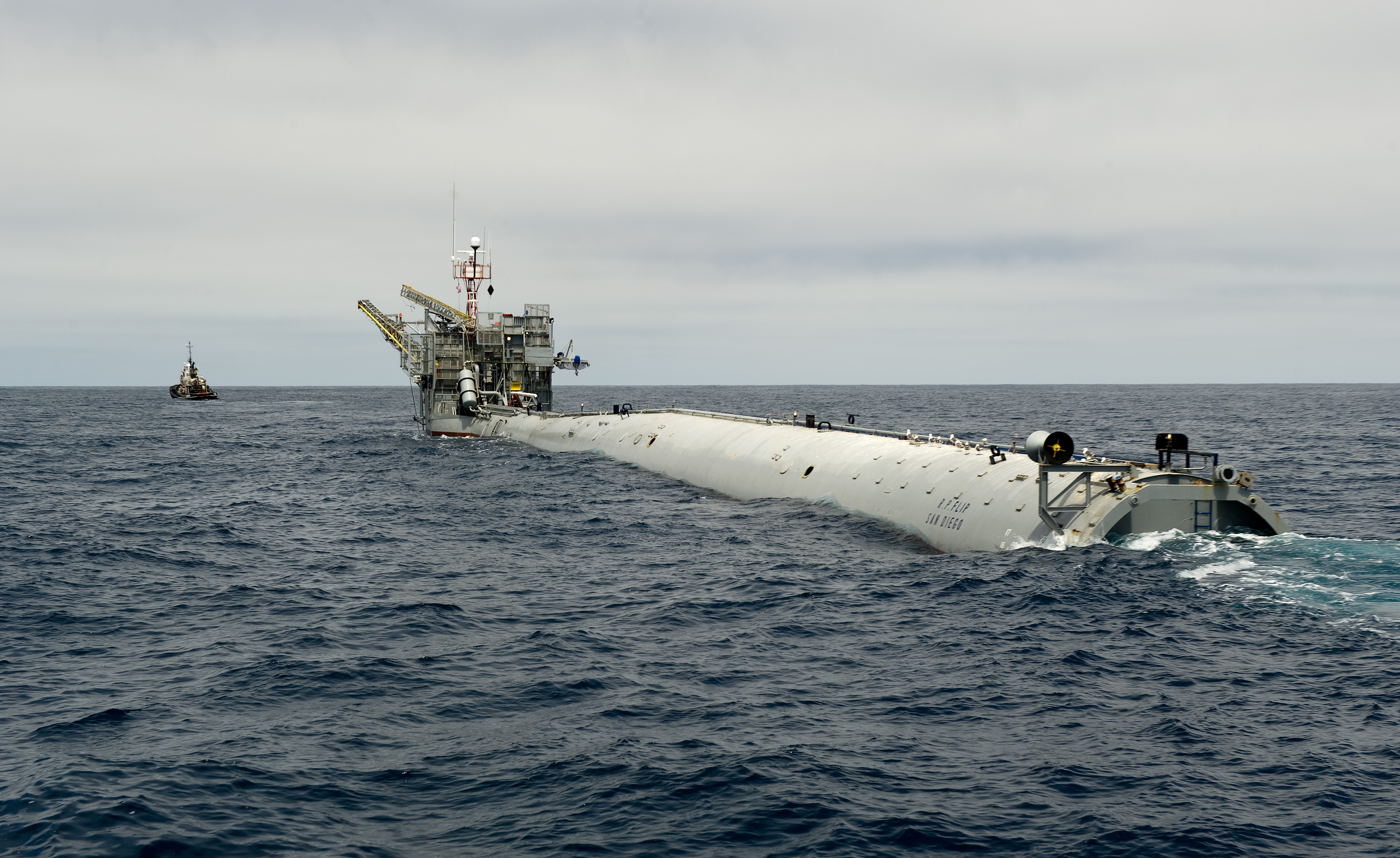 A tug tows the Department of the Navy's Floating Instrument Platform (FLIP) in the horizontal position to a location off the coast of Southern California were it will transition to a vertical position in order to conduct scientific research. Built in 1962, the 355-foot research vessel, owned by the Office of Naval Research (ONR) and operated by the Marine Physical Laboratory at Scripps Institution of Oceanography at University of California, is celebrating 50 years of operation.